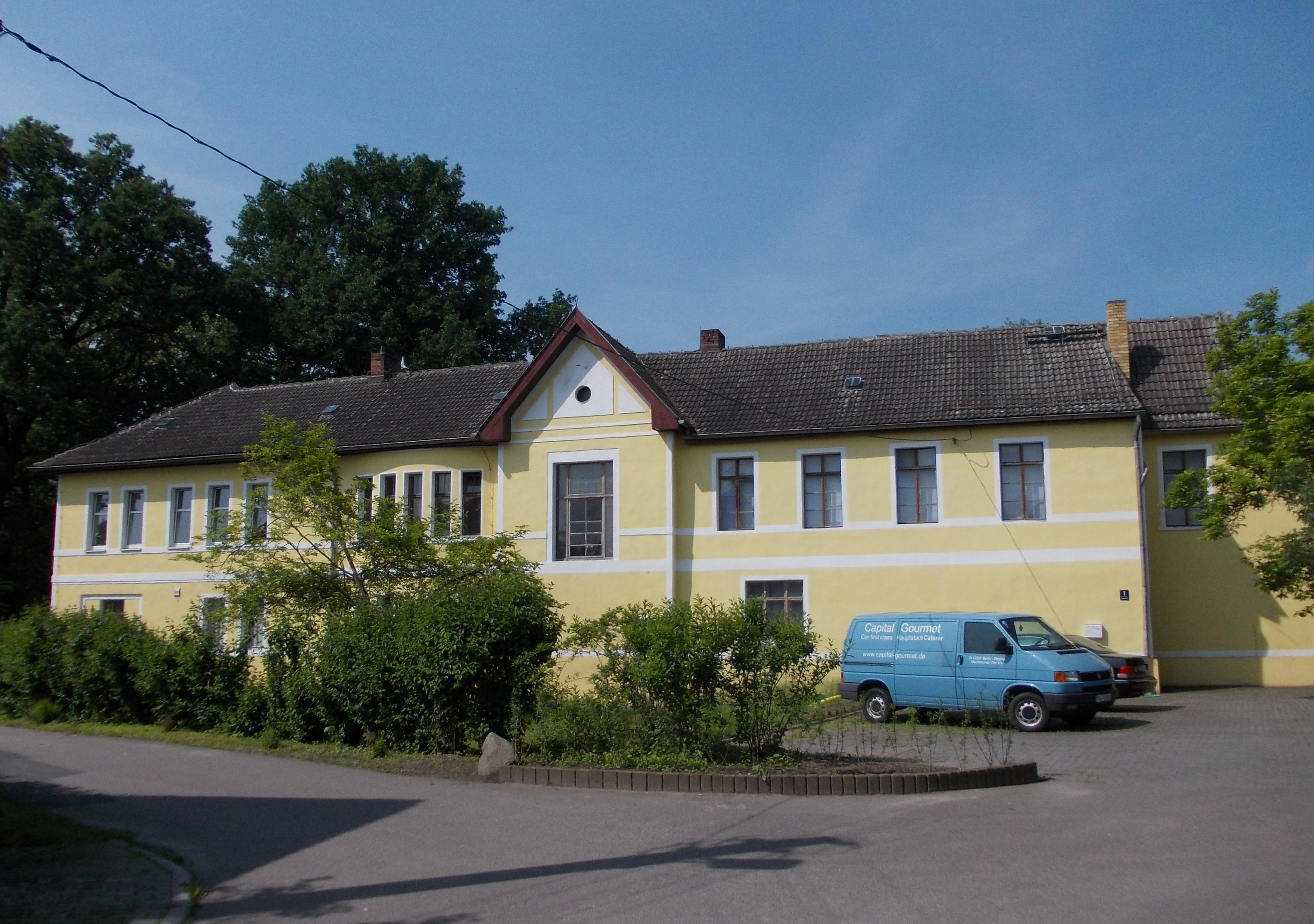 Manor house in Klitzschen (Mockrehna, Nordsachsen district, Saxony)